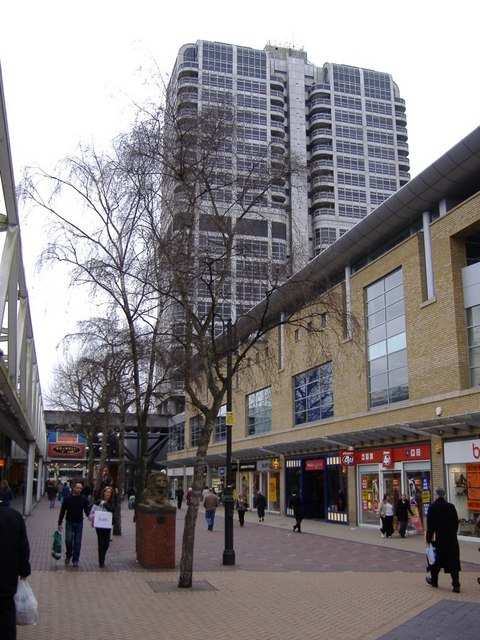 Canal Walk This pedestrianised street bisects the Brunel shopping centre. It is built over the former Wilts and Berks Canal, which ran through this part of Swindon until abandonment in the early part of the 20th century. The landmark structure at the rear is the 'David John Murray Building'- named after a local politician.